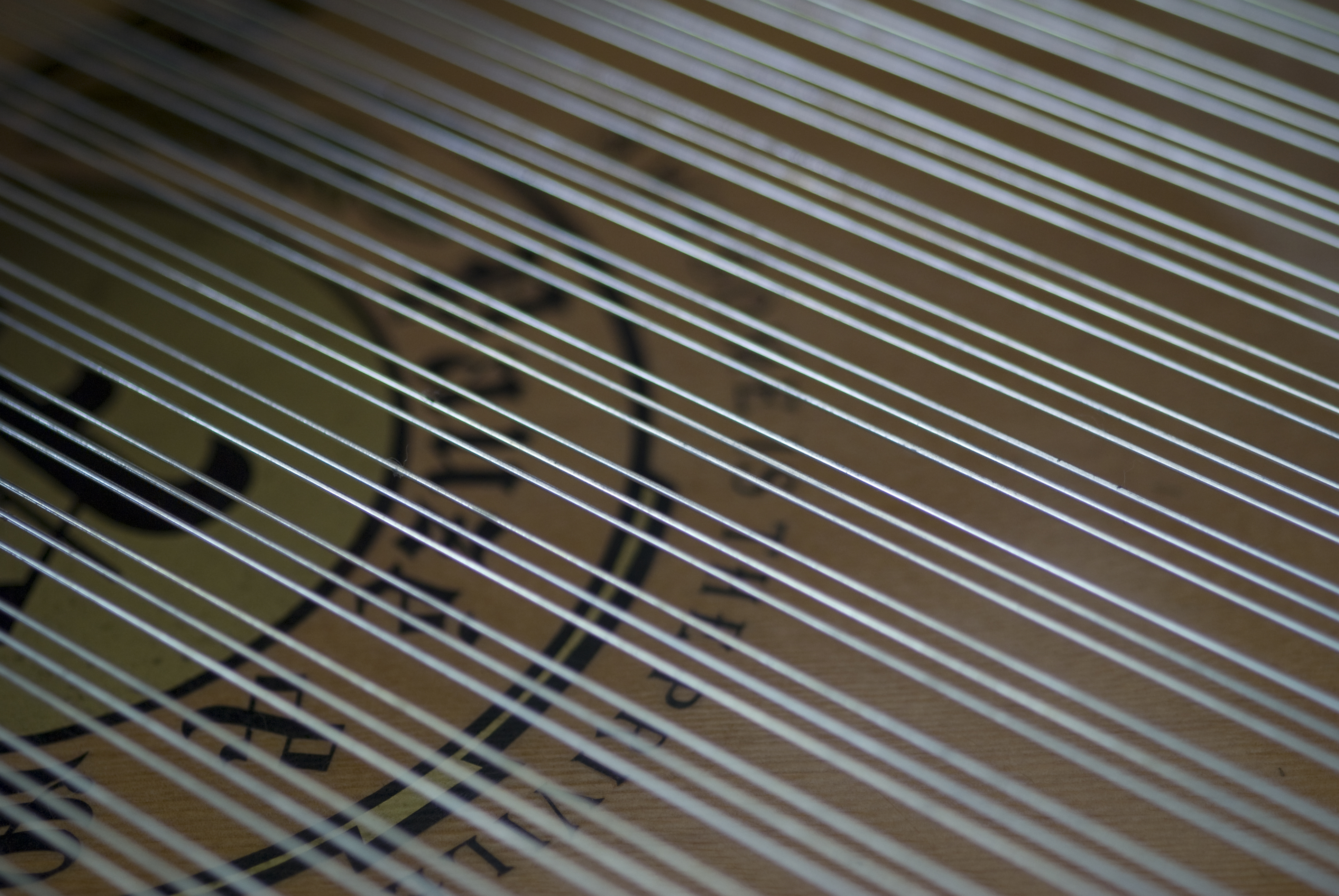 Piano strings